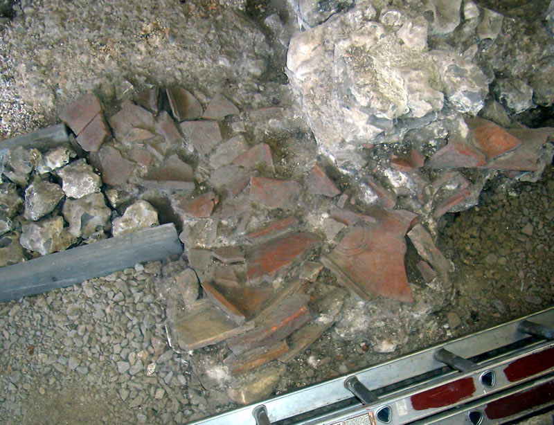 Crofton, Roman villa, roof tiles